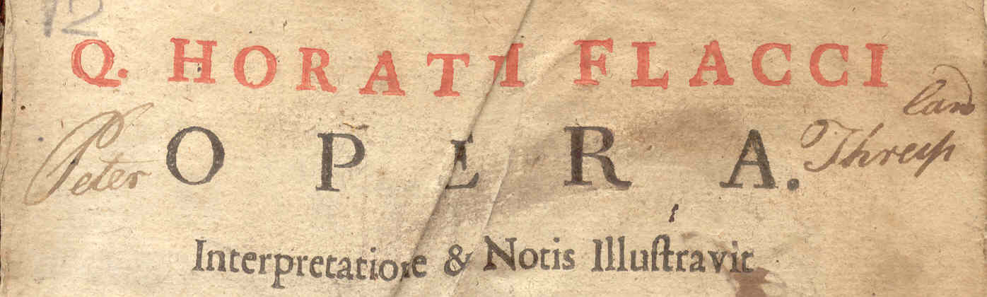 scan of page of a book (Quintus Horatius Flaccus VITA by Ludovicum Desprez) published in 1699 showing (probably) Peter Threipland of Fingask Castle signature. Elsewhre in book it says:-STEUART THREIPLAND.HIS BOOK.1731-Rodolph 16:09, 18 May 2007 (UTC)